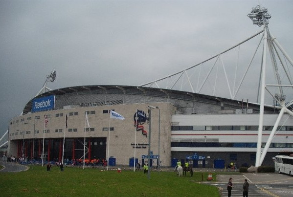 Reebok Stadium